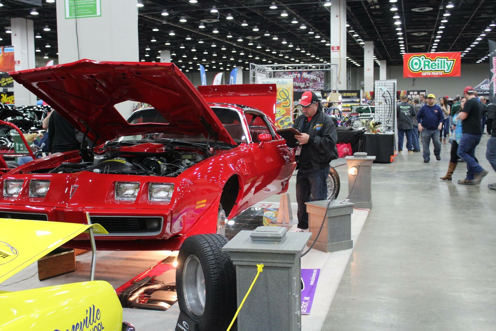 The ISCA judges run through every car in the show to decide the overall winners in each of the over 500 classes. In addition to the staff on-hand to judge all classes, a specific group of judges is brought in specifically to judge the Ridler Contenders to decide both the Pirelli Great 8 and Ridler Award.